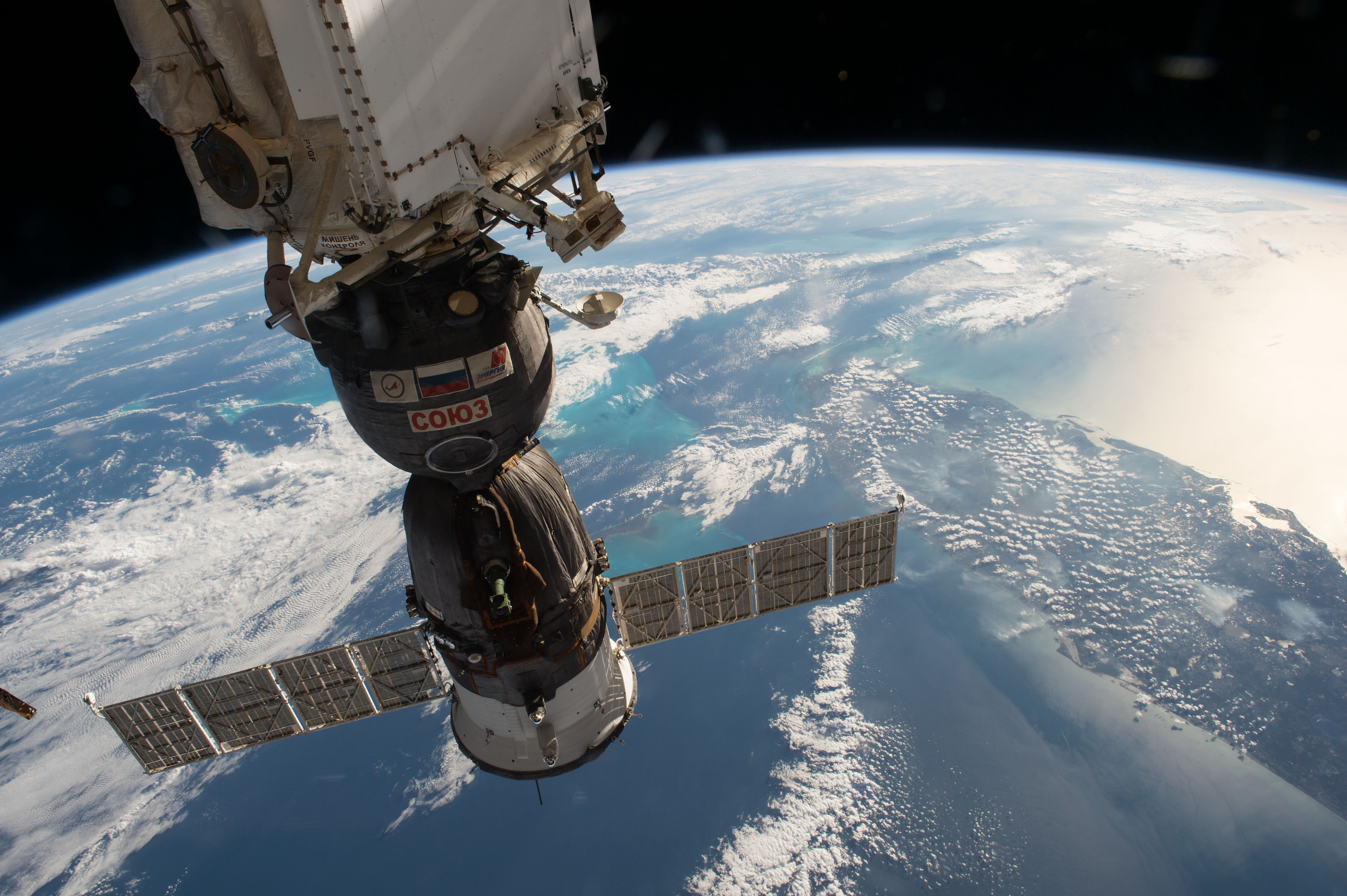 A Russian Soyuz spacecraft can be seen in this image from the International Space Station as it passes over the American state of Florida surrounded by the blue waters of the Gulf of Mexico on the west side and the Atlantic Ocean on the other.